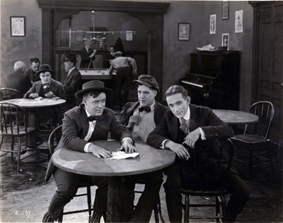 Still from the American drama film The Right Way (1921), directed by Sidney Olcott.